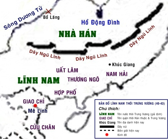 Map of the Lingnan (Lĩnh Nam) region during 40-43 AD